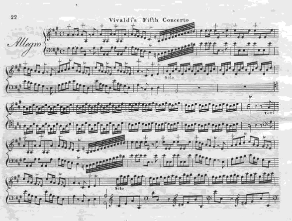 Scanned image of the transcription of Vivaldi's concerto Op.3, No.5, RV 519 from "A Collection of Easy Genteel Lessons for the Harpsichord composed by Giovanni Agrell, Book II, to which is added Vivaldi’s Celebrated 5th Concerto, set for the Harpsichord", London, Randall and Abell, c. 1767